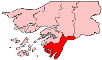 Map of Guinea-Bissau showing Tombali region.